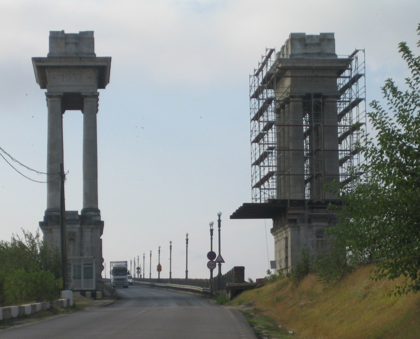 Bridge across Danube between Giurgiu Romania and Ruse Bulgaria